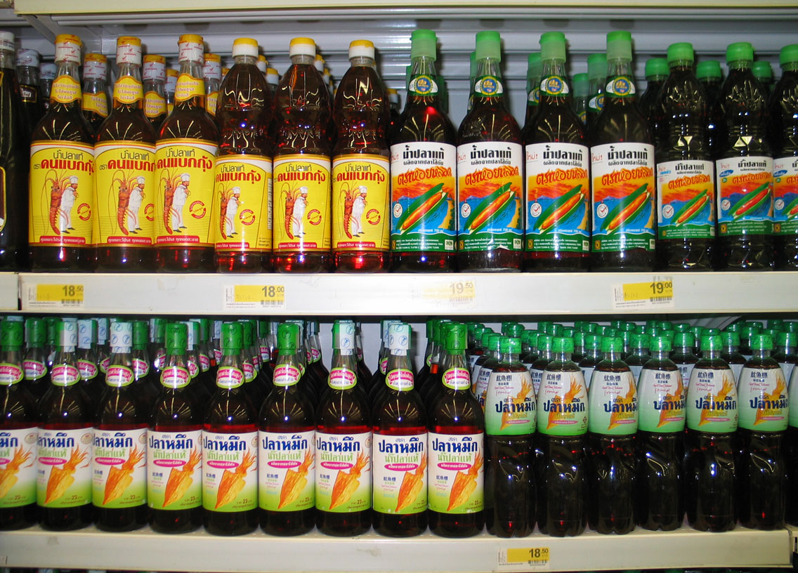 Thai fischsauce in a Thai supermarket